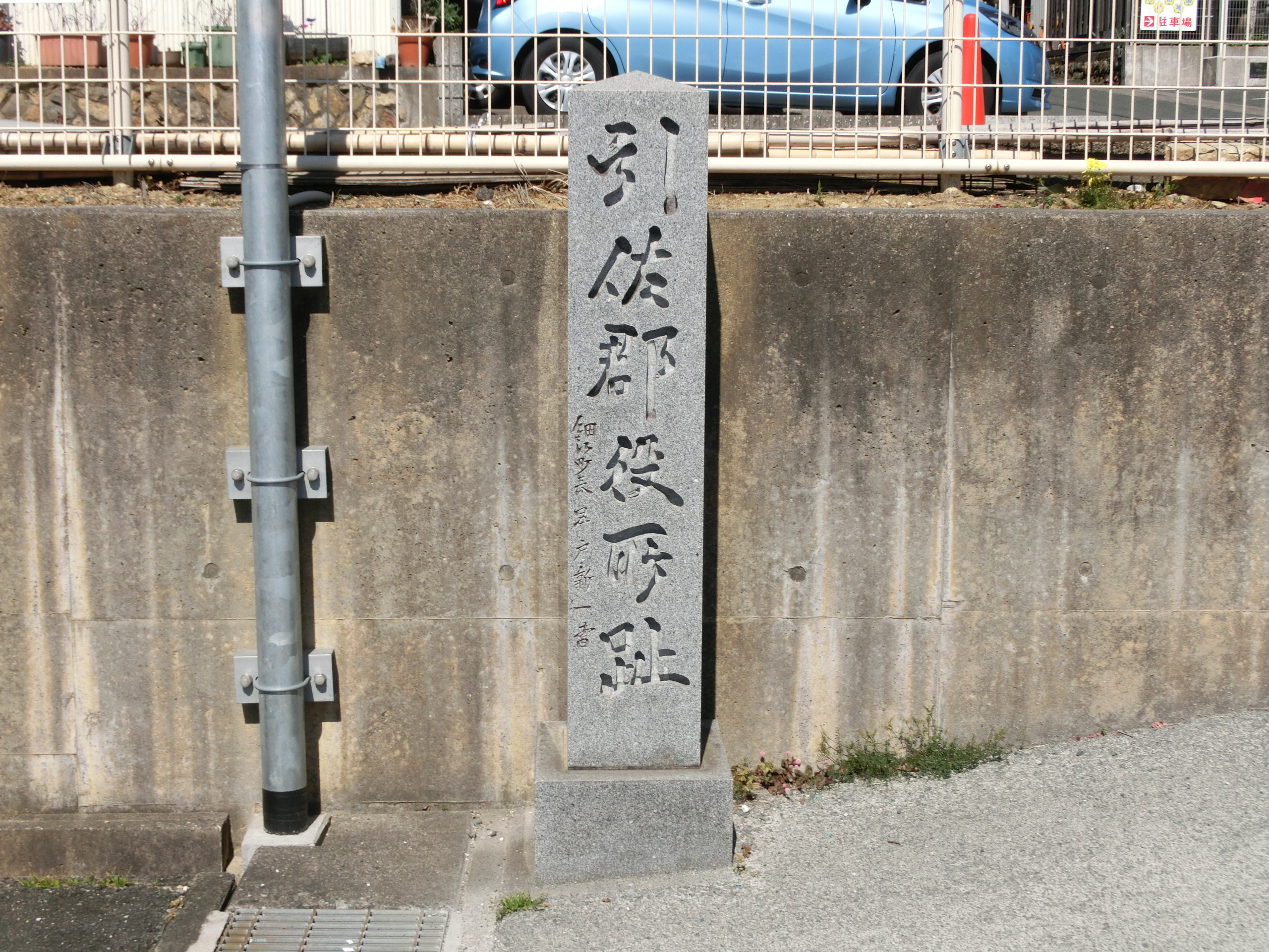 Ruins of Inasa District Office Monument